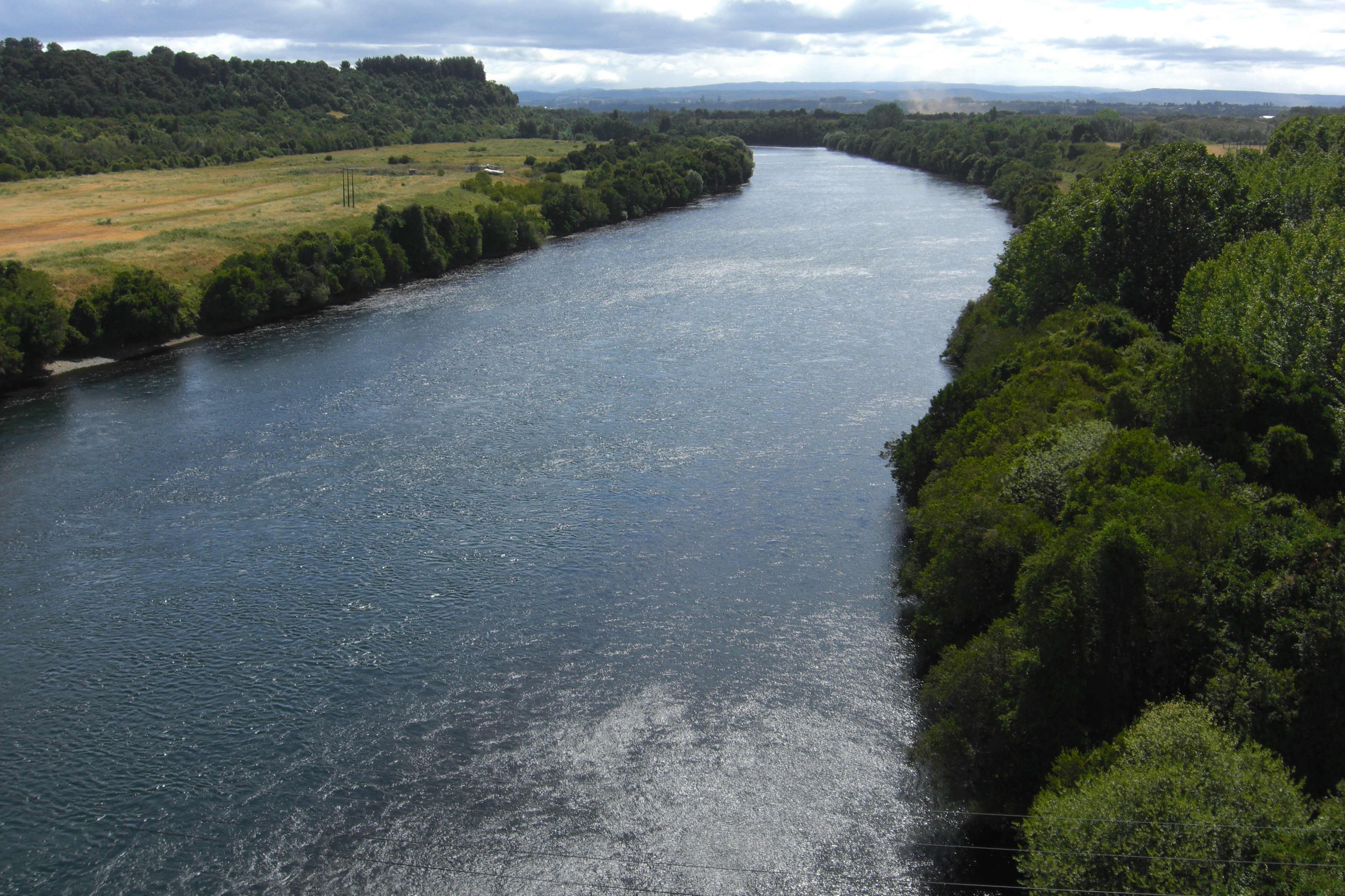 Is the Bio Bio? I'll have to look at my map again. Just lovely pastoral scenery along I-5 not far north of Valdivia.